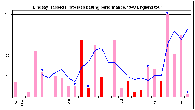 FC batting chart for Lindsay Hassett during the 1948 tour of England. Blue line is an average for five most recent innings, blue dots are not outs. Bars are runs scored. Pink for FC, red for Tests